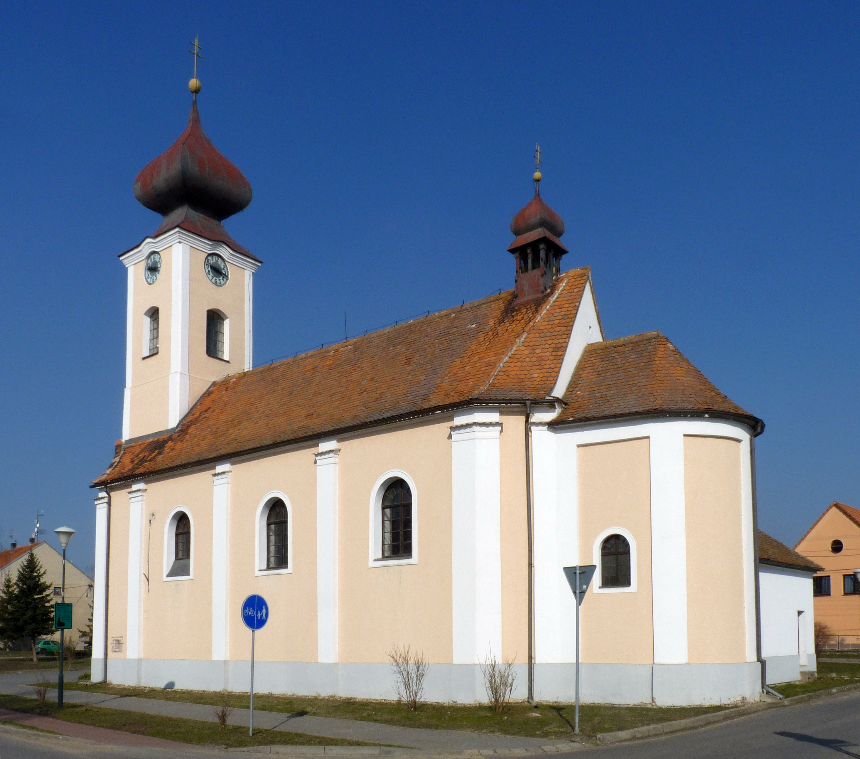 Pasohlávky, Brno-Country District, South Moravian Region, Czech Republic Project: Chráněná území